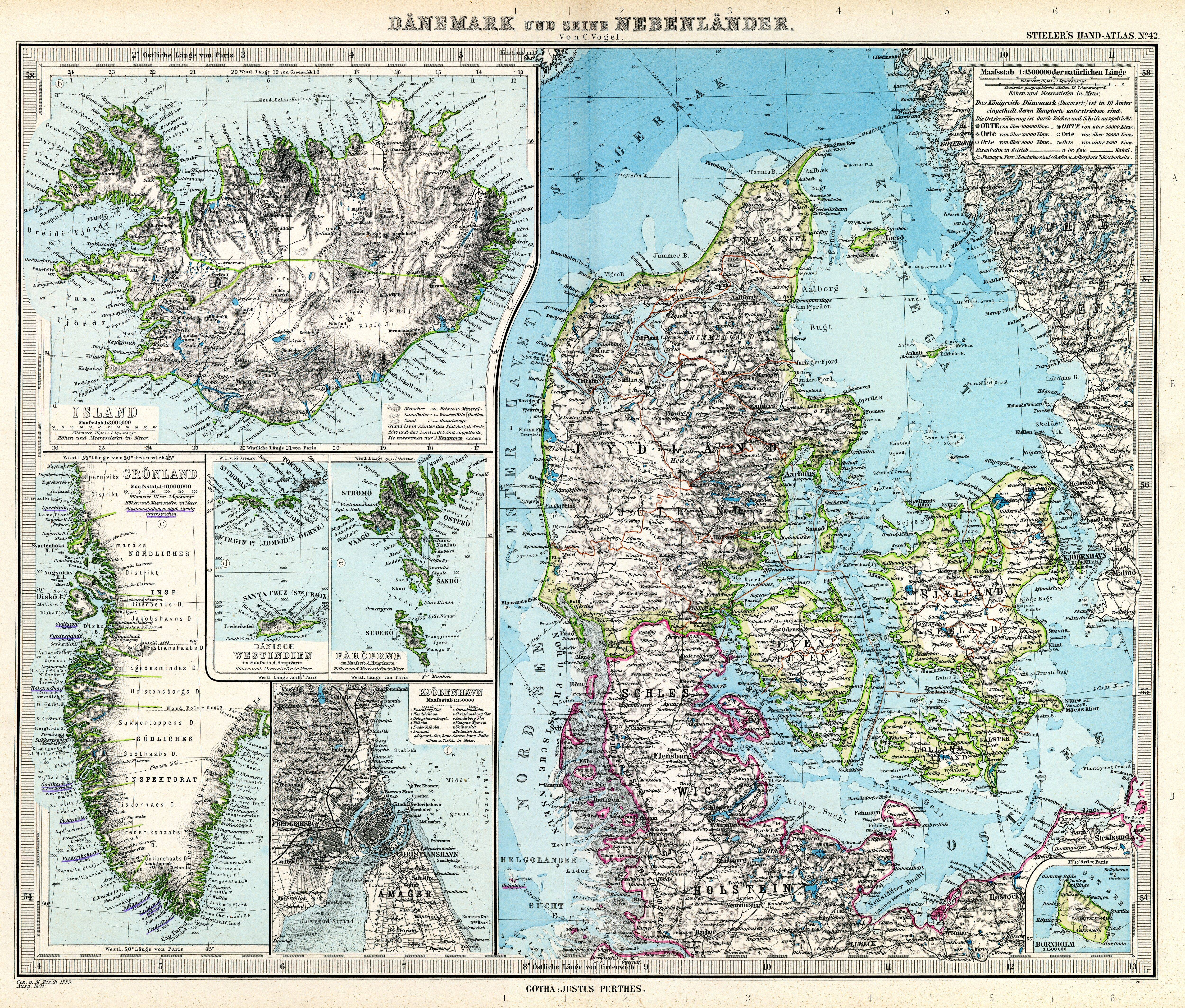 Denmark and adjacent lands